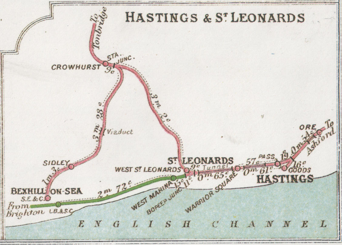 Excerpt from Railway Junction Diagram 100: pre-grouping railway junction around Hastings & St Leonards. Out of date since the 1960s due to the closue of the Bexhill West branch and of the West Marina station.